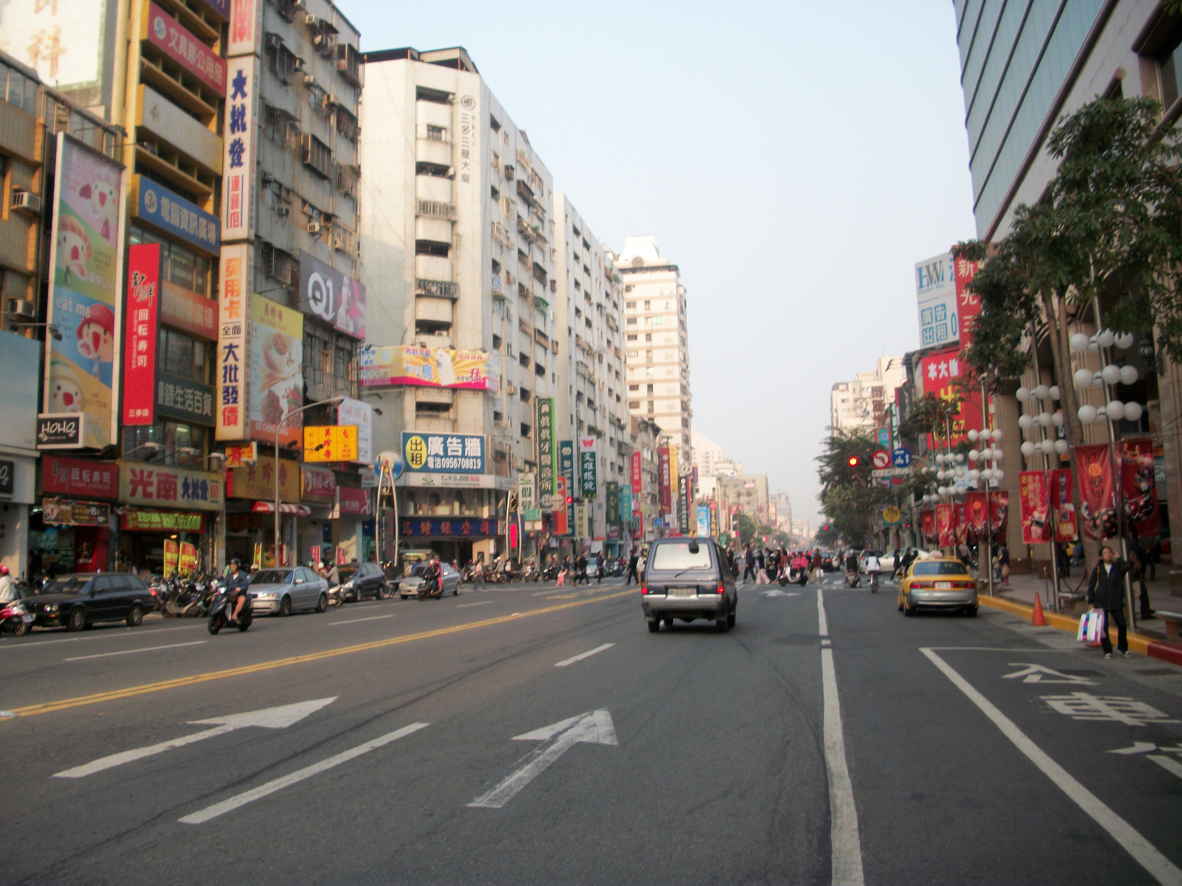 Looking eastward alongside the at the Sanduo business district in Kaohsiung City.The photo was taken from in front of the SOGO Kaohsiung Branch.